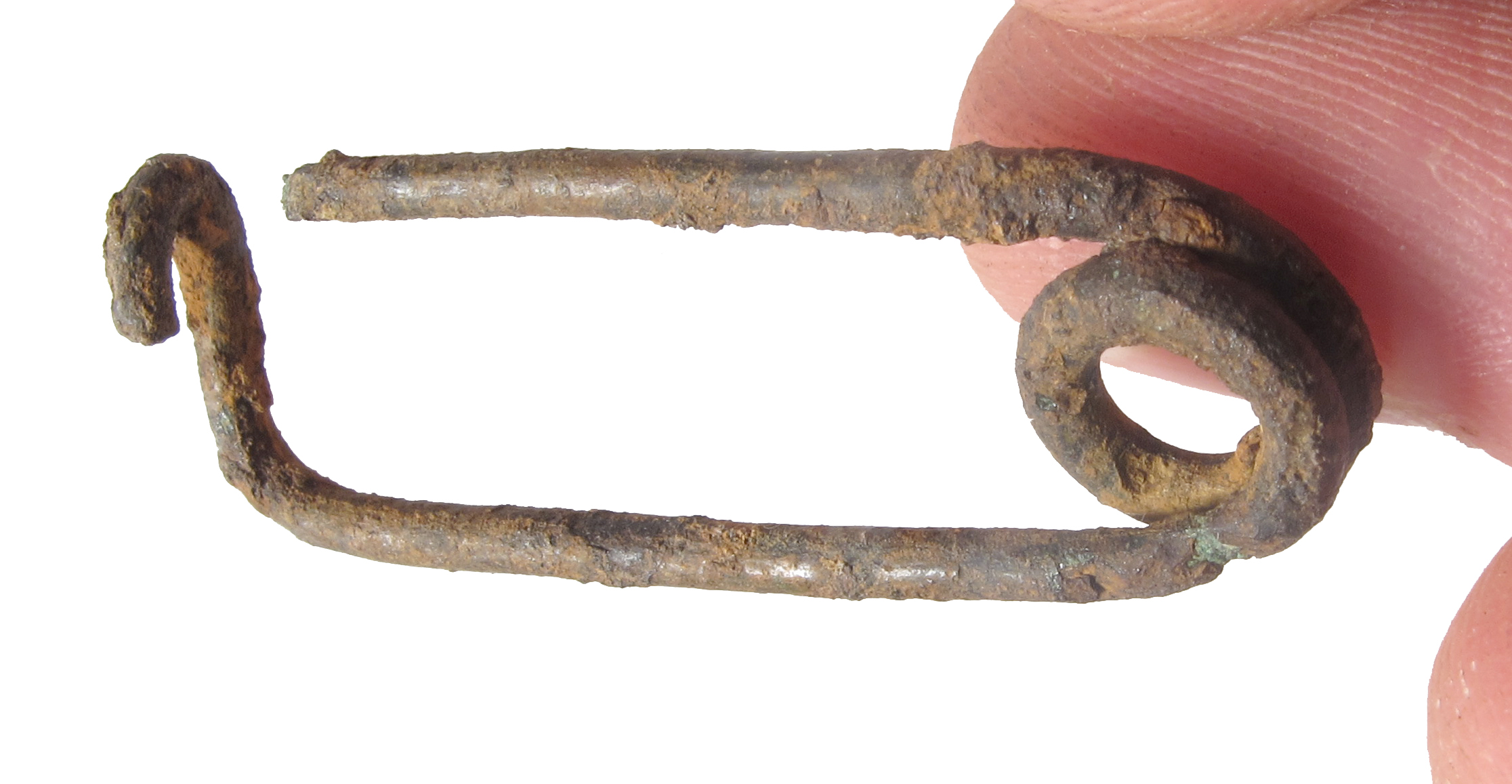 An Anglo-Saxon copper-alloy safety-pin type brooch. The brooch is made from a single piece of wire, pointed at one end, bent into a springy loop in the centre, and then bent up to form a hooked catchplate at the other end. This type of brooch is sometimes wrongly attributed to the Iron Age; a very similar example was however found unstratified at Whitby (Peers and Ralegh Radford 1943, fig. 12, no. 4) and they are more likely to belong to the middle Anglo-Saxon period, perhaps 8th century.